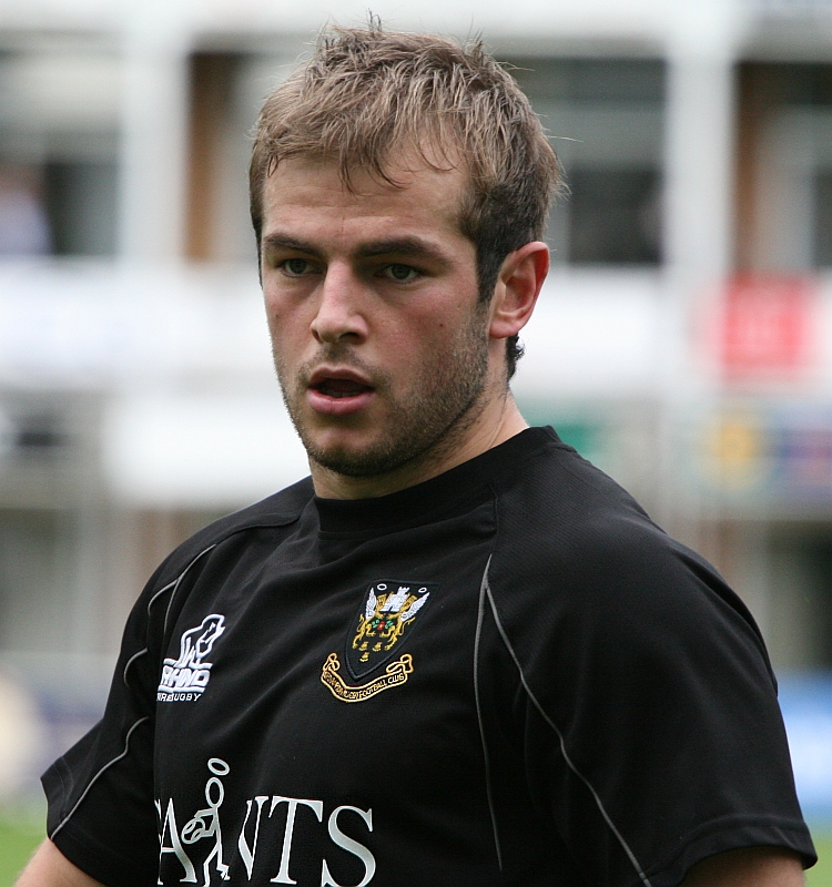 at the Northampton Saints vs Sale Sharks match, Franklin's Gardens 24th October 2009